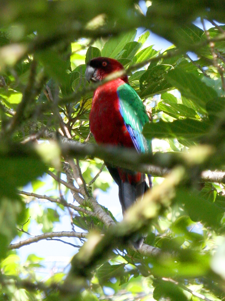 Maroon Shining Parrot Prosopeia tabuensis, De Voeux Peak, Taveuni, Fiji Islands